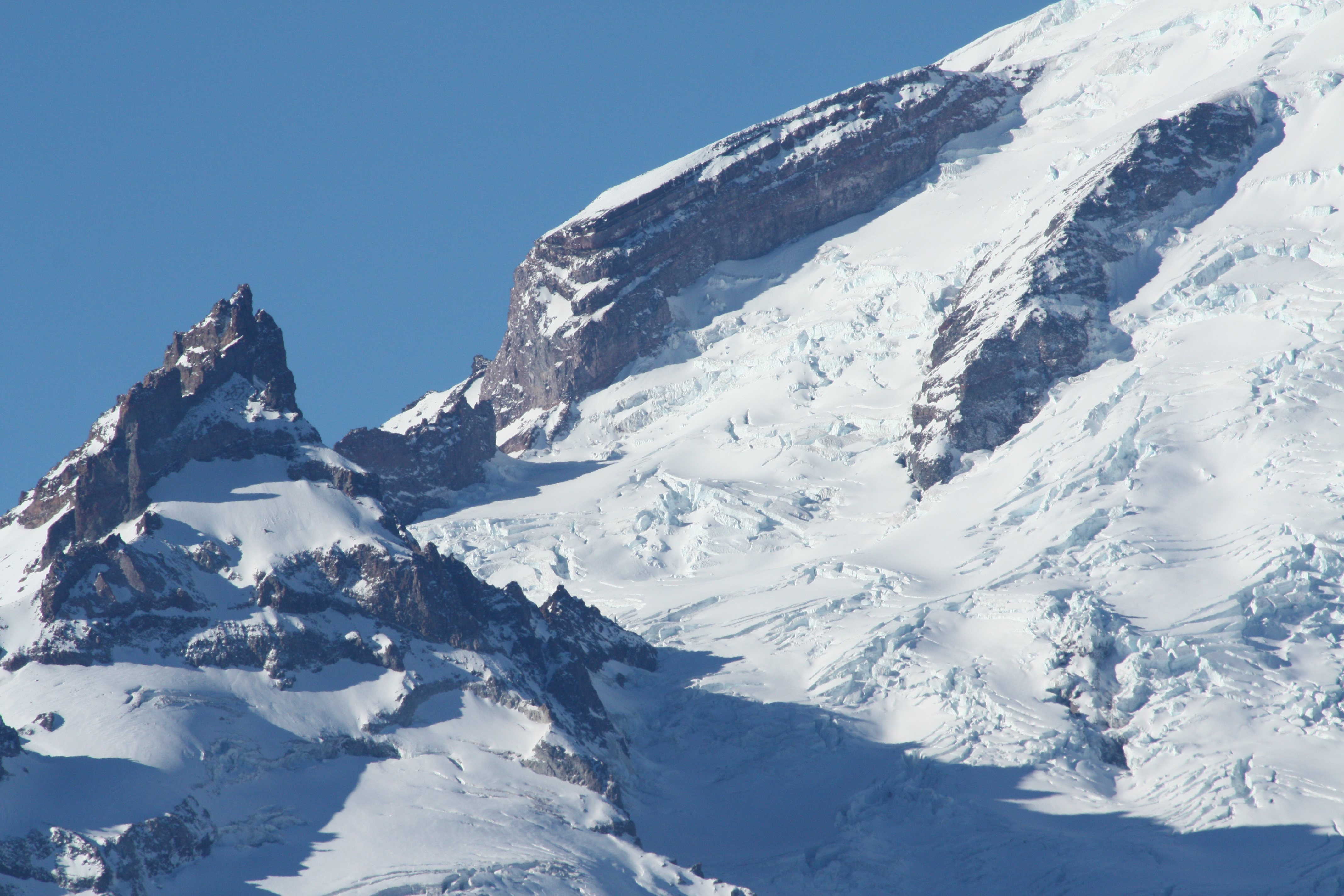 Ingraham Glacier (left) is between Gibraltar Rock (12660 feet) center skyline and Disappointment Cleaver (upper right). Left of Gibraltar Rock is sharp pointed Little Tahoma (11138 feet) with Frying Pan Glacier on its flank.